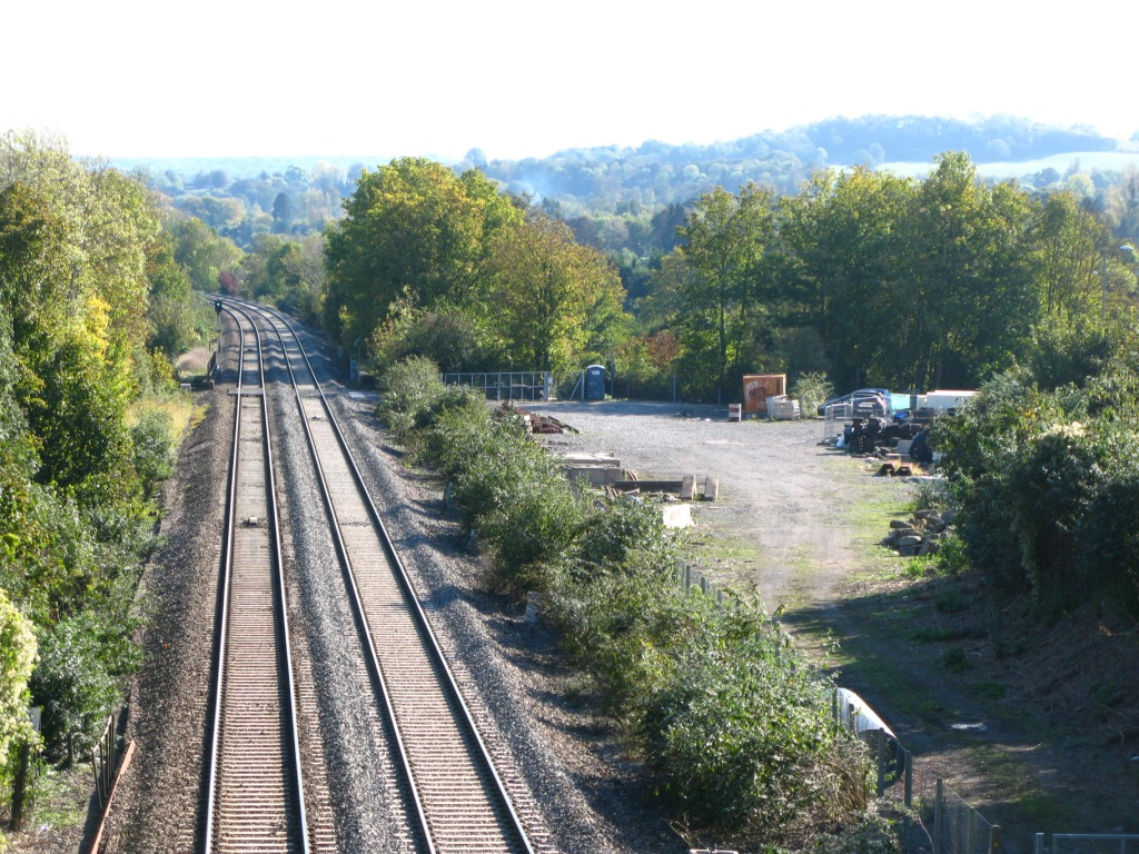 Saltford station was opened in 1840 by the Great Western Railway, and closed in 1970 by British Rail. It stood at the eastern end of the village where there was level access from the road to Bath. This view was taken in 2011.